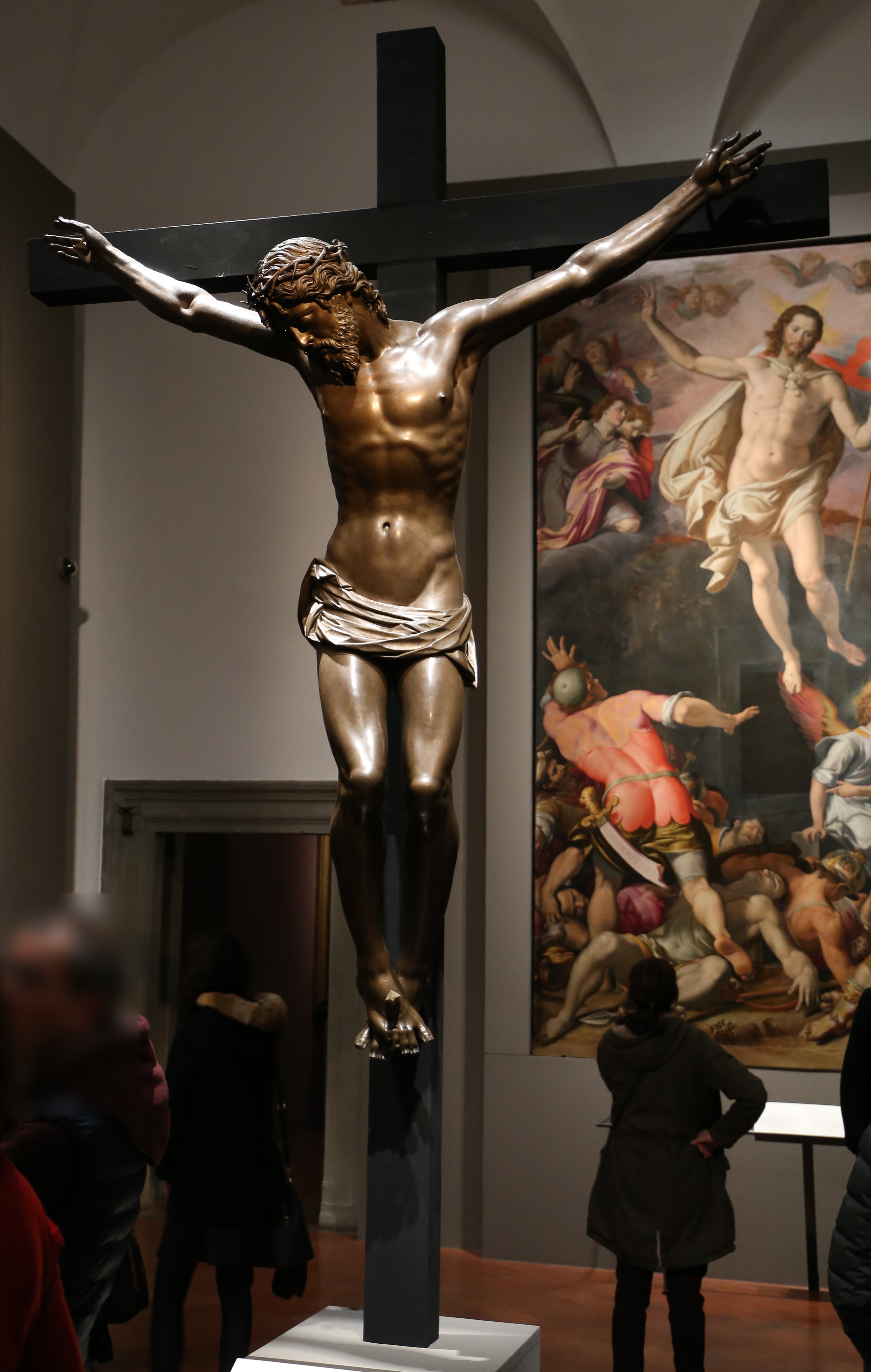 Il Cinquecento a Firenze (2017 exhibition)